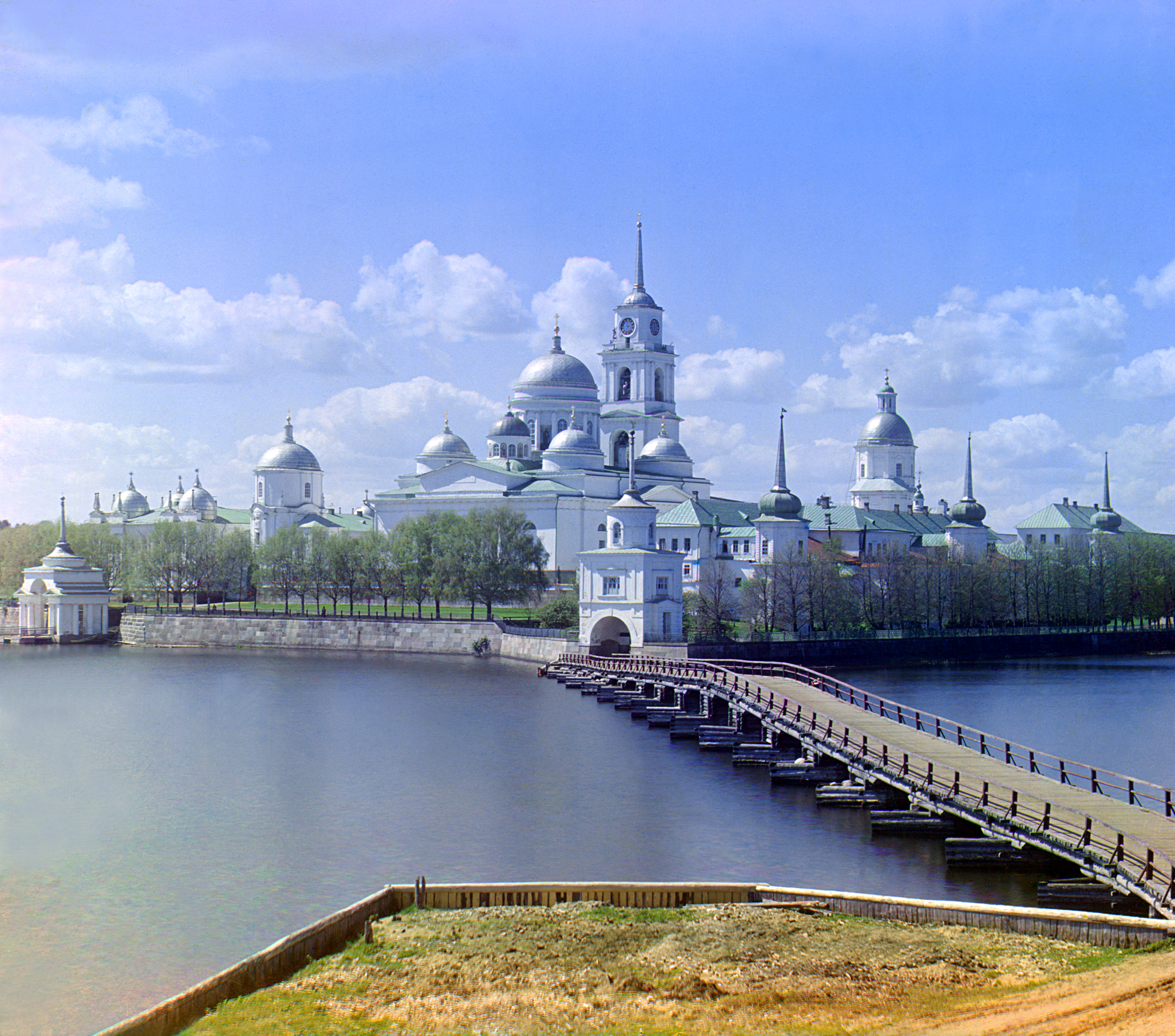 Early color photograph from Russia, created by Sergei Mikhailovich Prokudin-Gorskii as part of his work to document the Russian Empire from 1909 to 1915. The Monastery of St. Nil on Stolobnyi Island in Lake Seliger in Tver Province. Full caption from The Library of Congress exhibition "The Empire That Was Russia: View of the Nilova Monastery. The Monastery of St. Nil' on Stolobnyi Island in Lake Seliger in Tver' Province, northwest of Moscow, illustrates the fate of church institutions during the course of Russian history. St. Nil (d. 1554) established a small monastic settlement on the island around 1528. In the early 1600s his disciples built what was to become one of the largest, wealthiest, monasteries in the Russian Empire. The monastery was closed by the Soviet regime in 1927, and the structure was used for various secular purposes, including a concentration camp and orphanage. In 1990 the property was returned to the Russian Orthodox Church and is now a functioning monastic community once more.